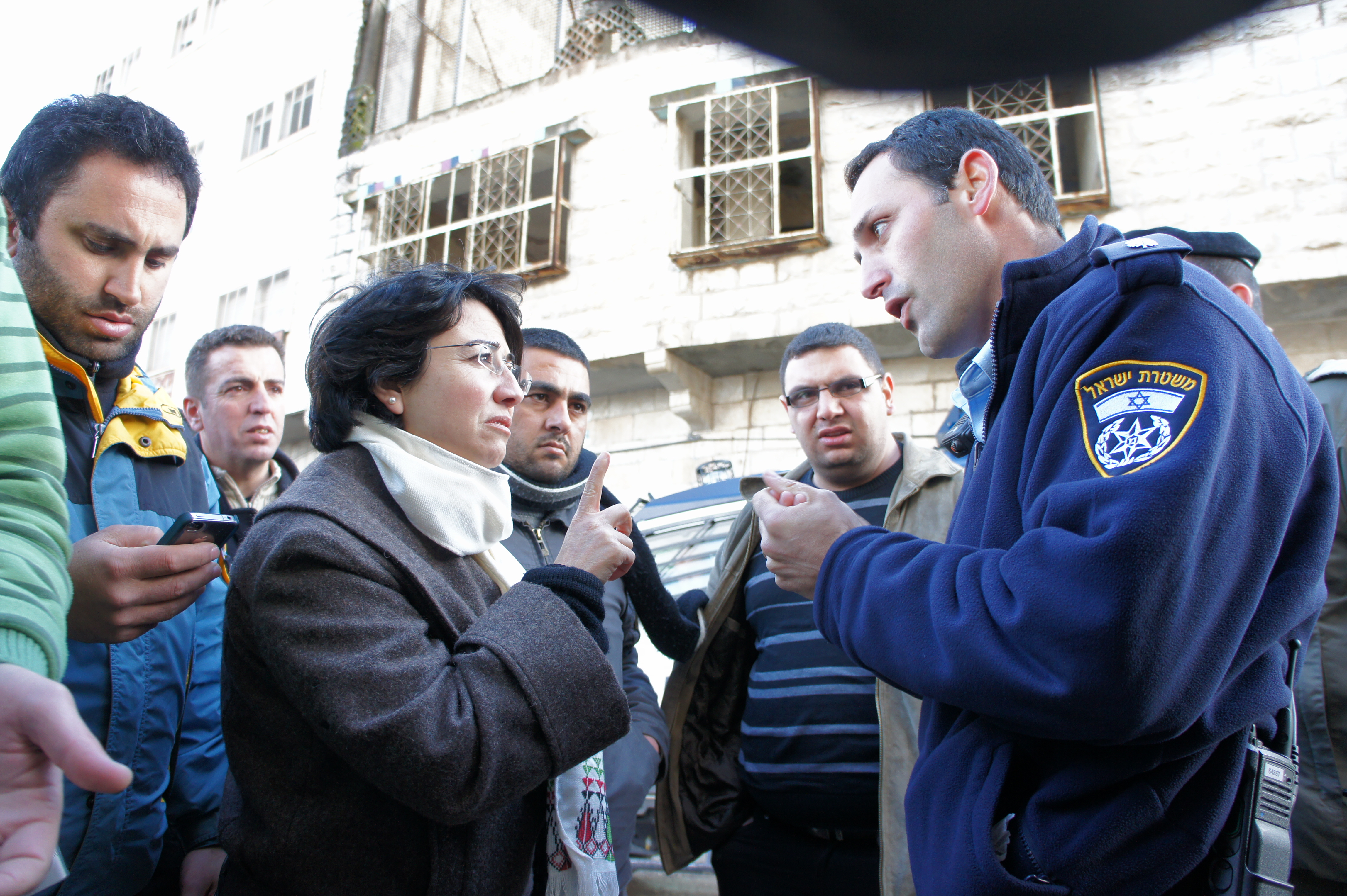 Issa Amro and Haneen Zoabi, in Hebron, February 2012